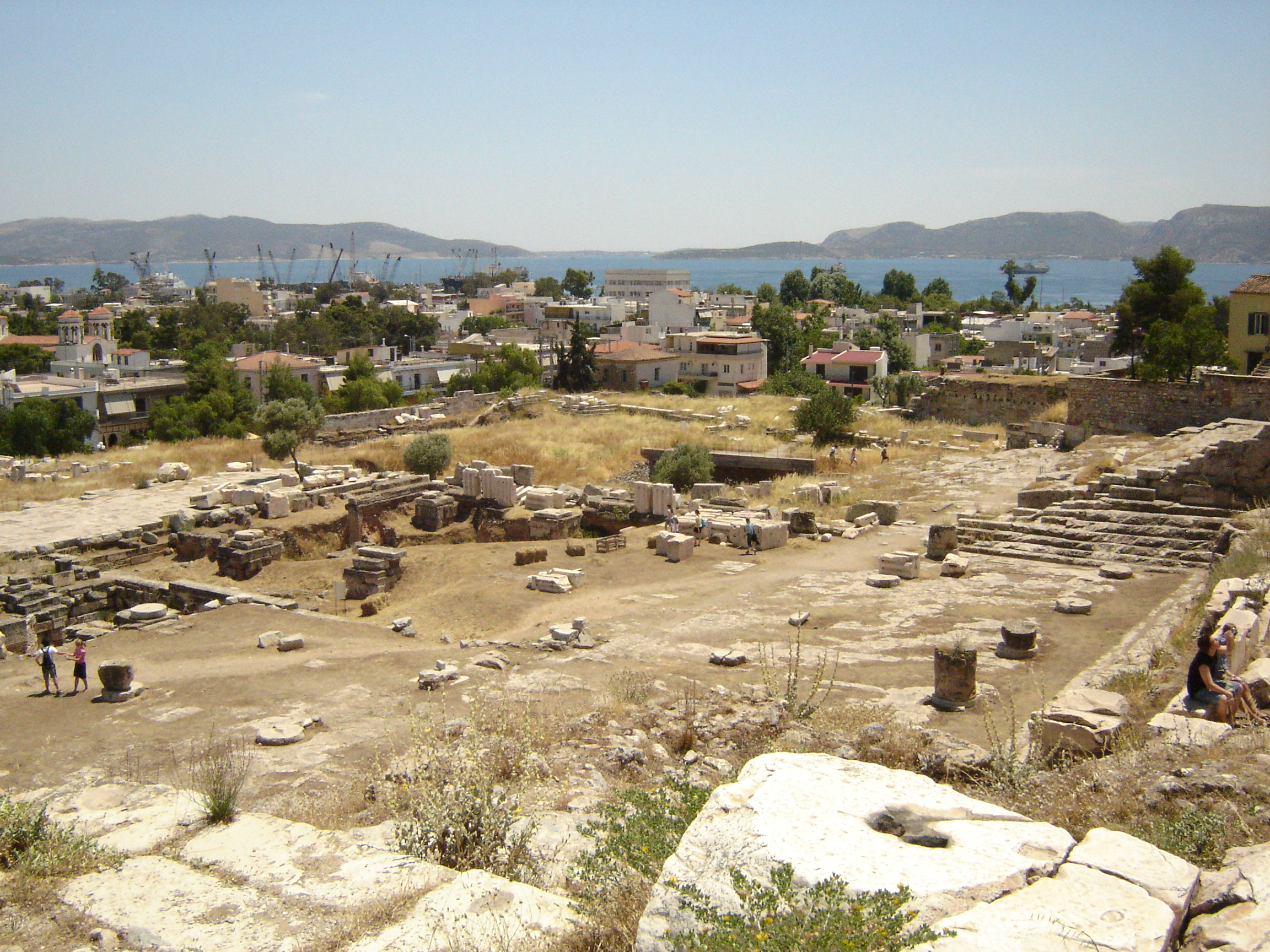 Ruins at Eleusis (Elefsina), Greece, sacked by Dacian Costoboci ca. 170 AD. View over the excavation site towards the Saronic Gulf.